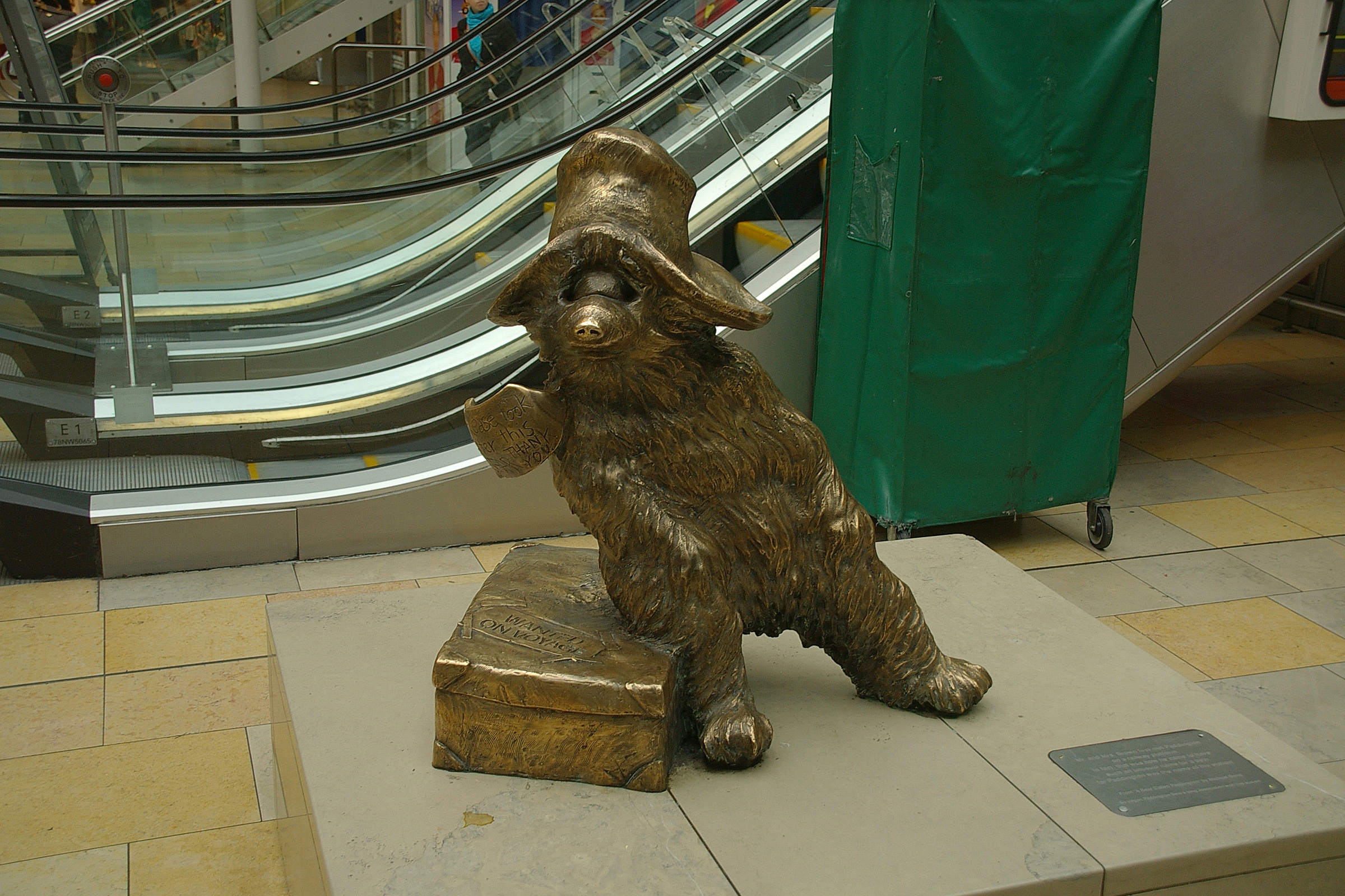 The Paddington Bear statue at London Paddington railway station. This image is used in a Nintendo DSi in a travel application created by The Content Works (